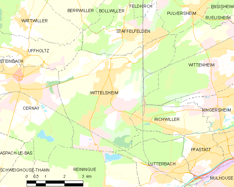 Map of French municipality